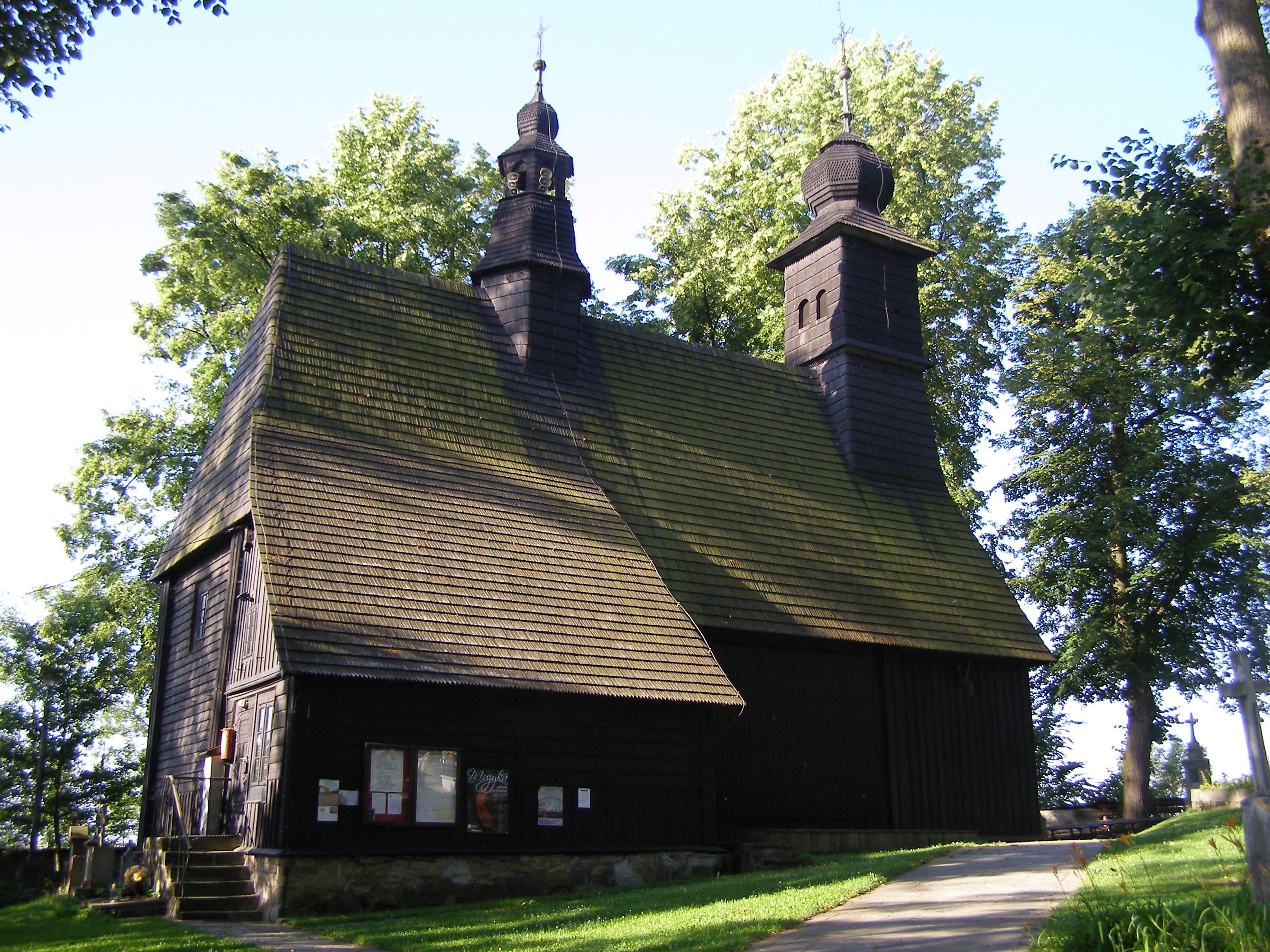 Nowy Targ - St. Anne church